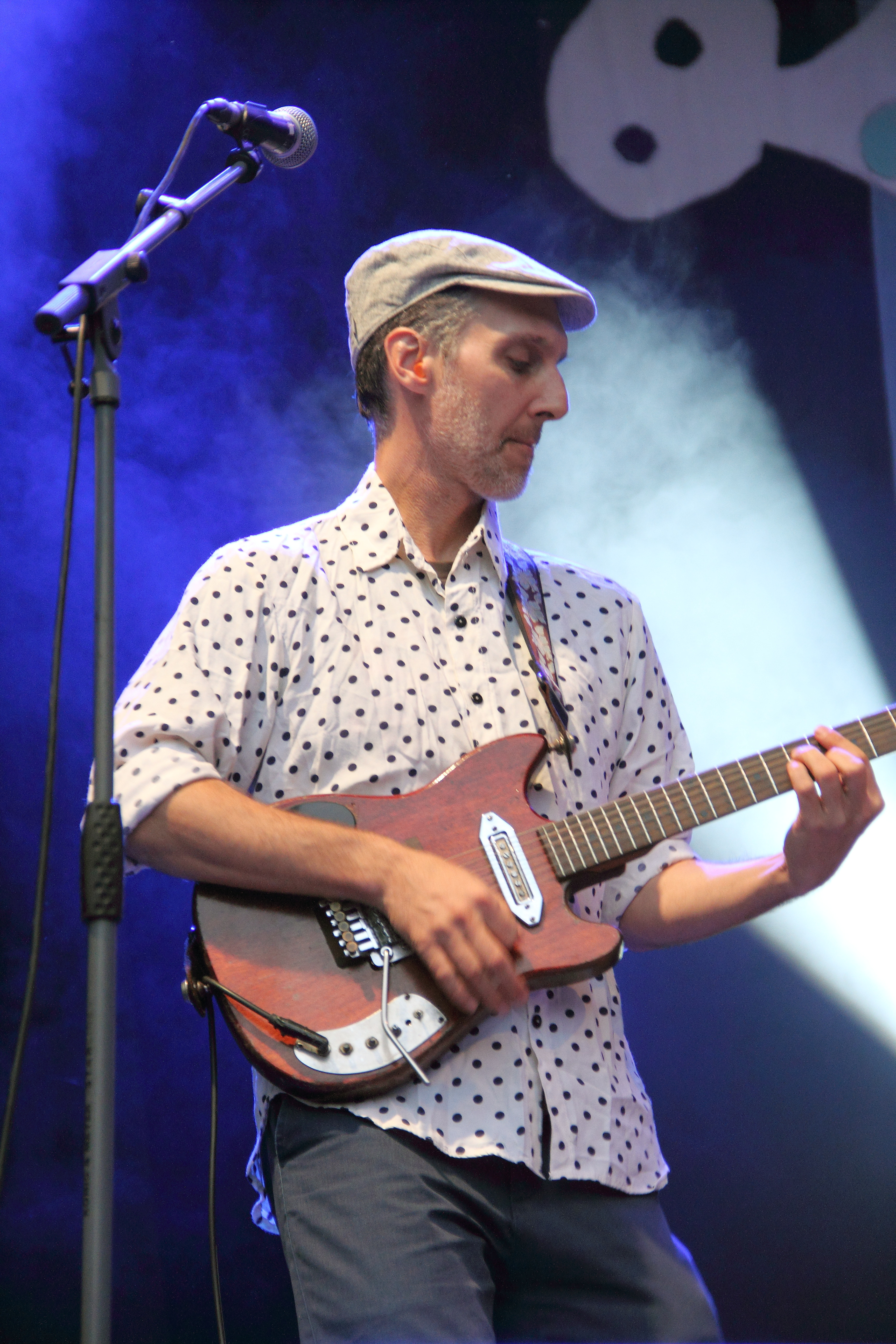 Chico Trujillo at Rudolstadt-Festival 2018.